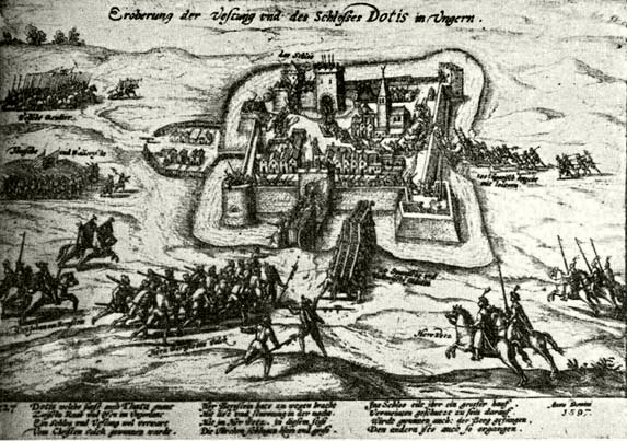 Pápa in 1597